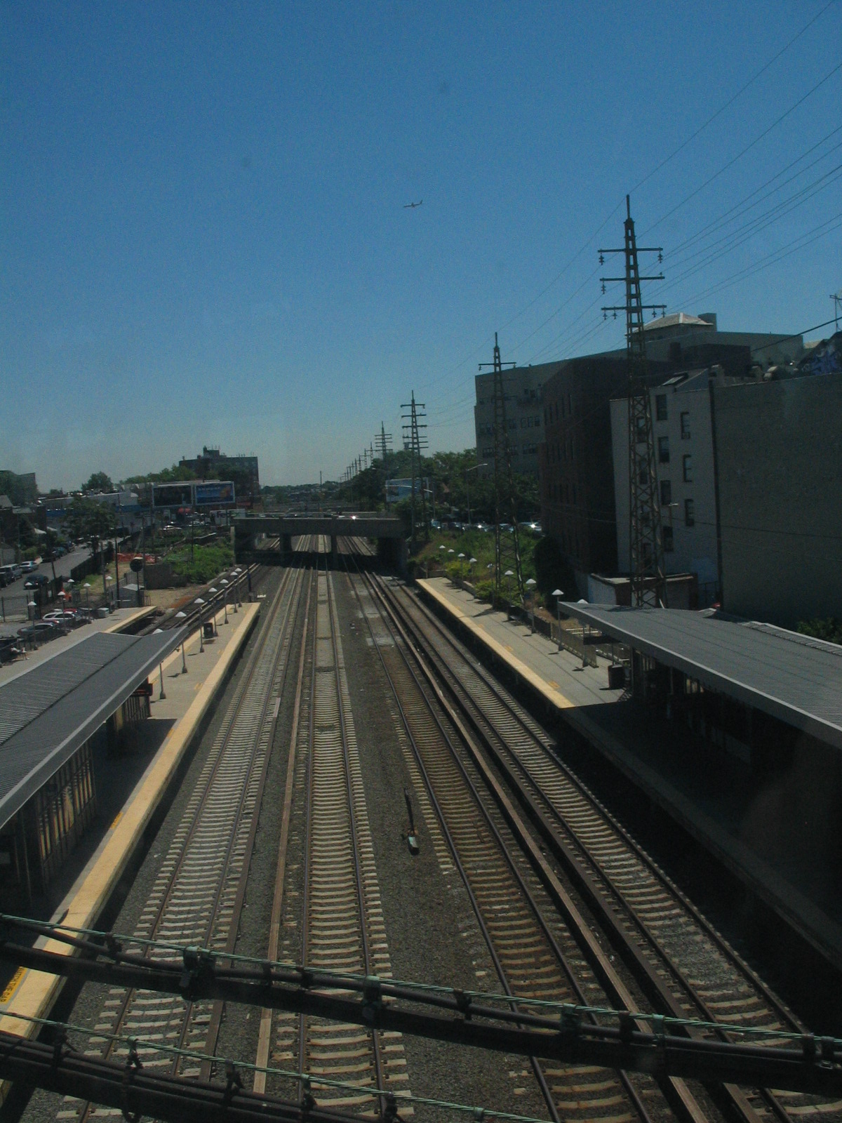 The main line of the Long Island Railroad passing through Queens, New York